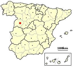 Location of Salamanca in Spain.